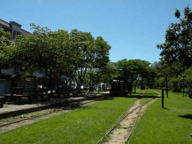 Taiwan Sugar Railways Singgang Station